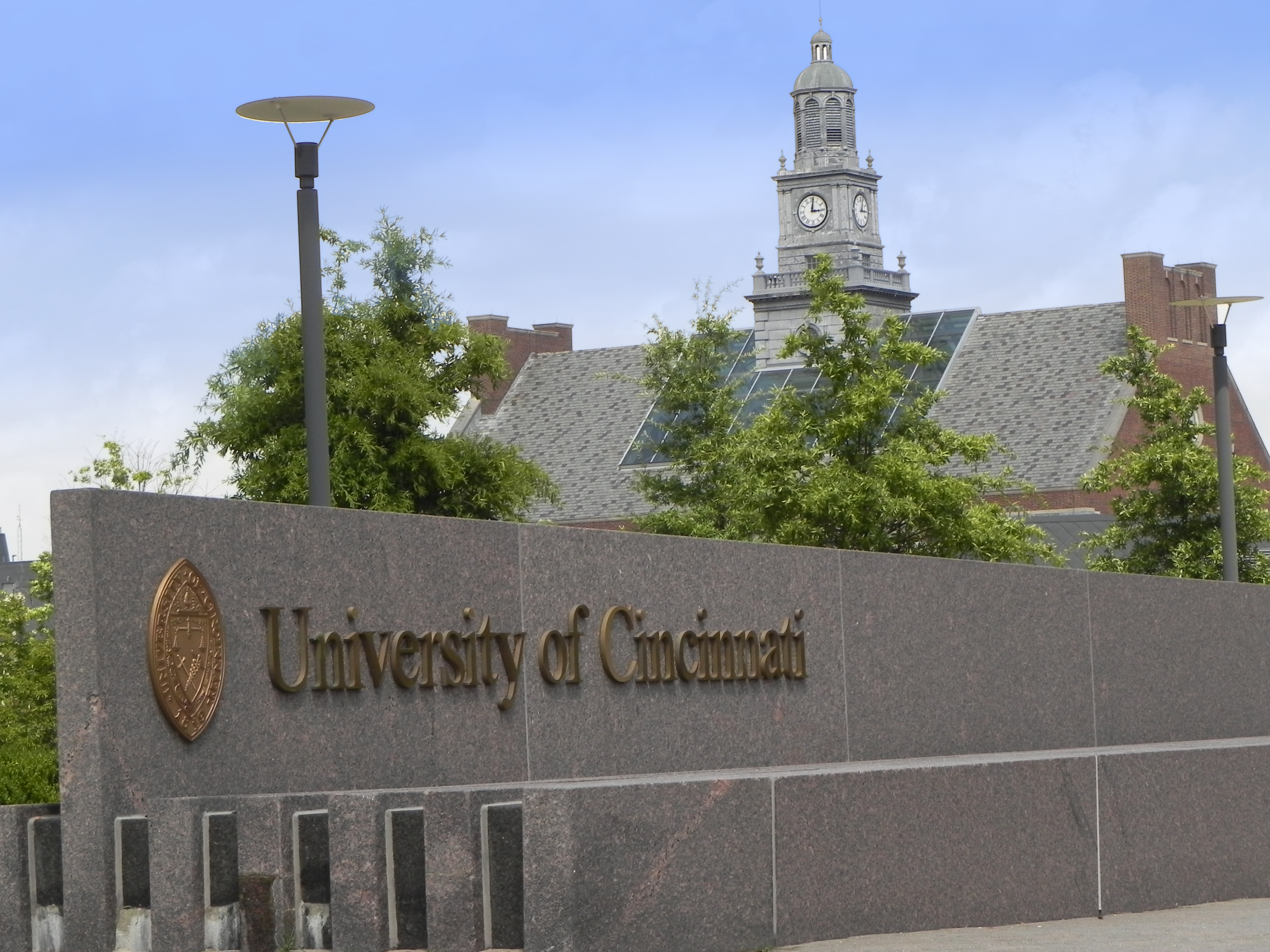 Picture of University of Cincinnati Entrance and Tangeman University Center